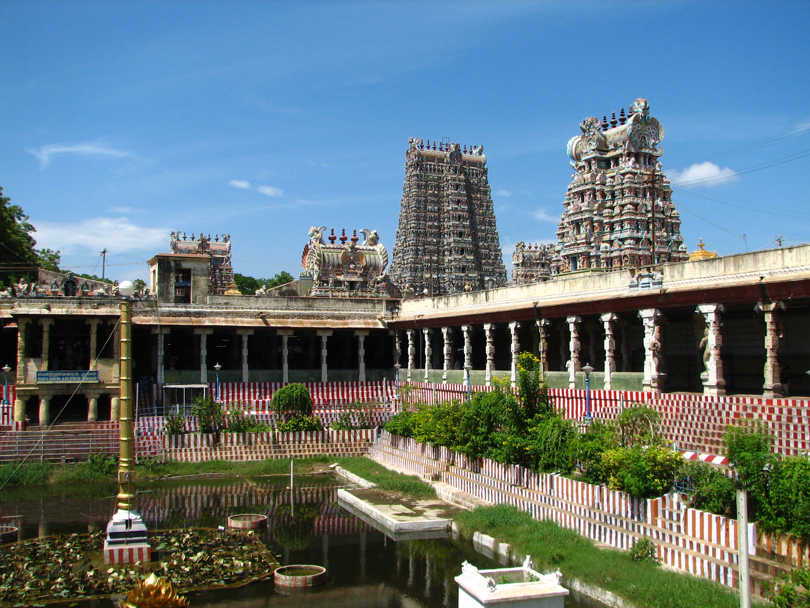 The Golden Lotus tank within the sprawling complex of the Sri Meenakshi -Sundareshvara (Parvati-Shiva) Temple in Madurai. Several of the large gopurams (pyramidal gates) are visible overhead. The tank was a great place to park myself and watch the pulse of the temple in the sun.